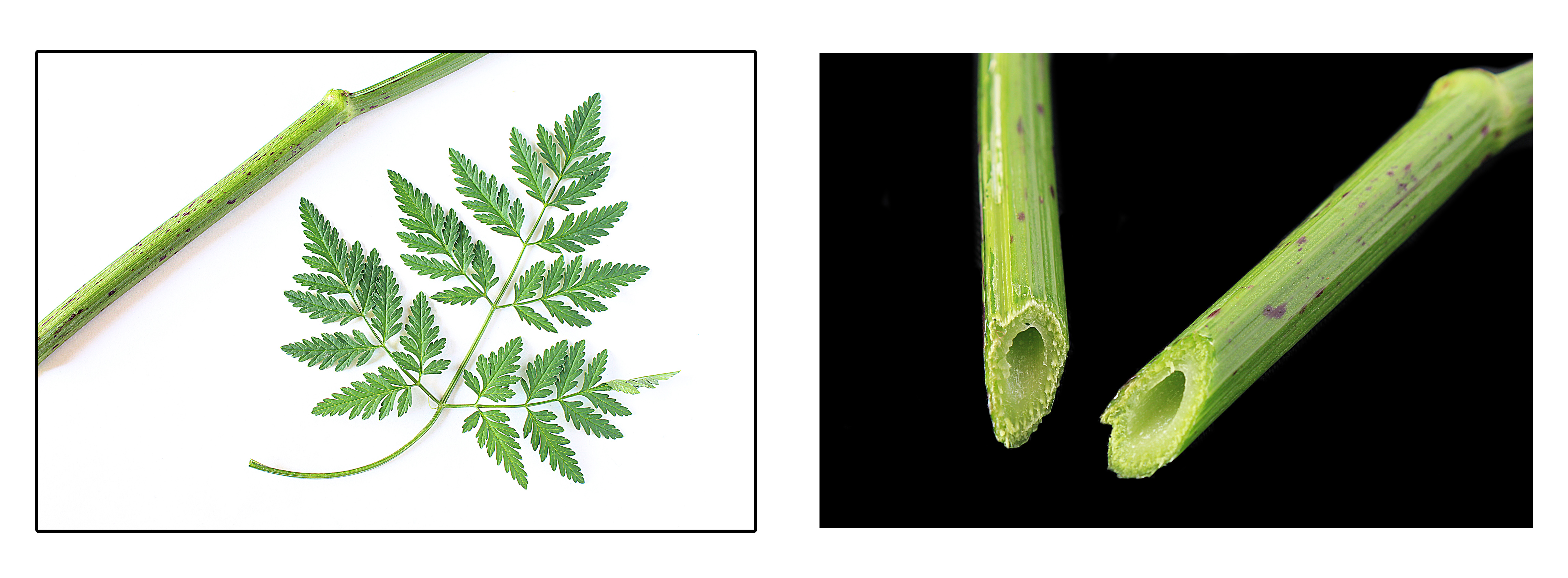 Leaves and stem of poisonous hemlock